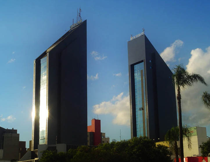 Central Park Shopping Centre and Bourbon Hotel buildings in Cascavel, Paraná, Brazil. Donated to public domain.